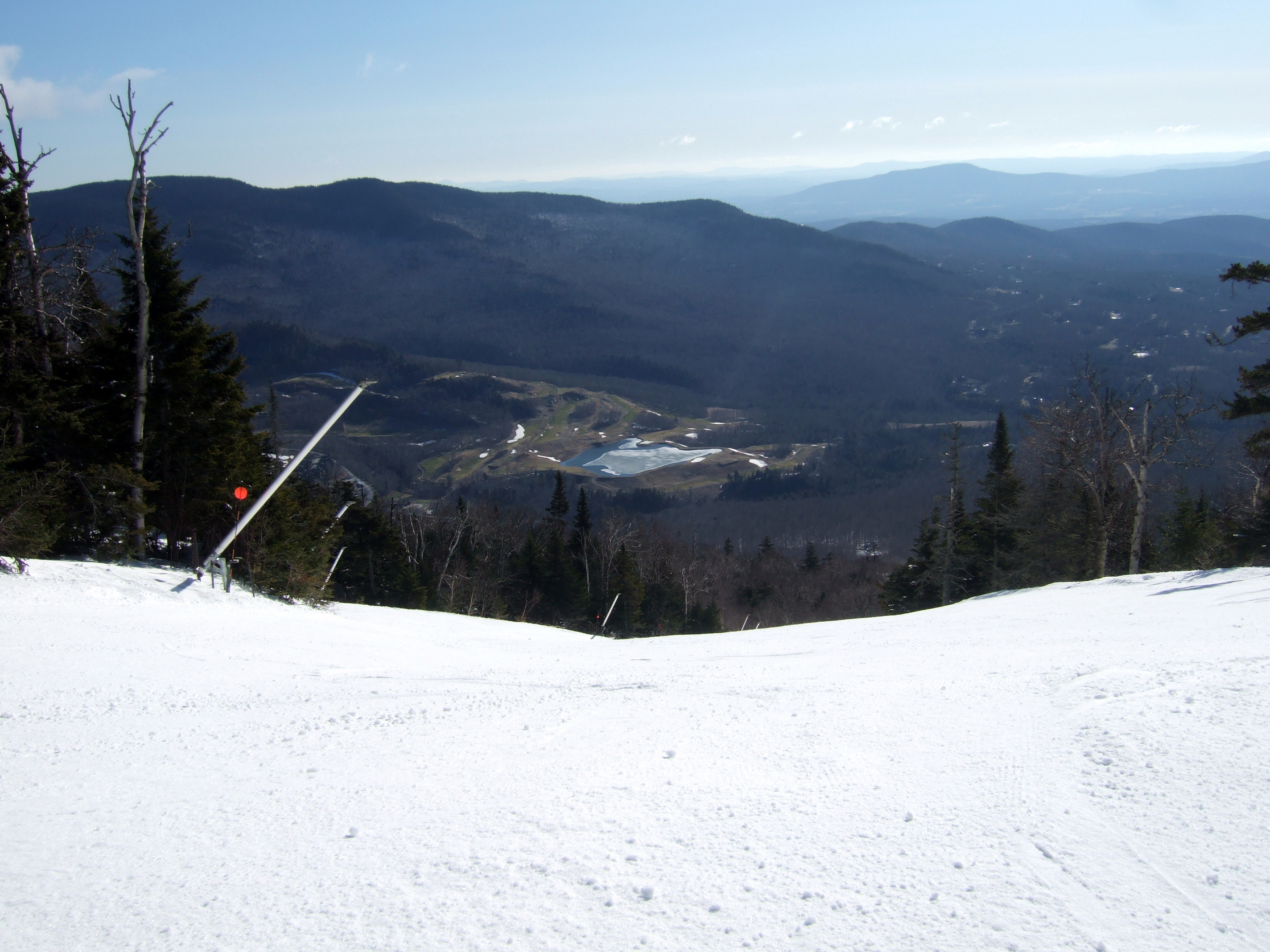 Stowe Mountain Resort, Vermont, USA. A golf course is visible in the valley below.